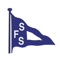 Sydney Squadron club logo